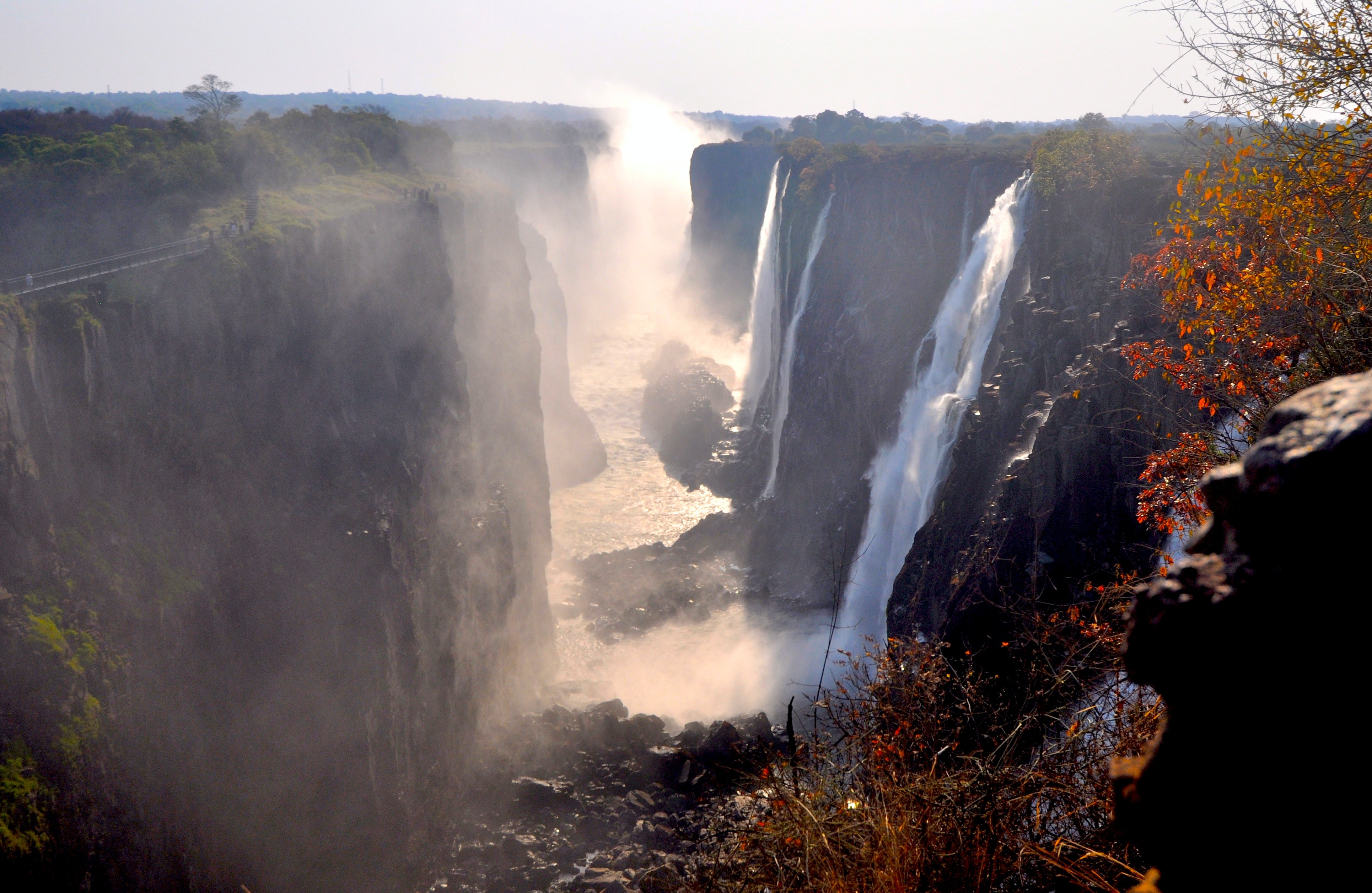 Victoria Falls, First Gorge, Zambian Side